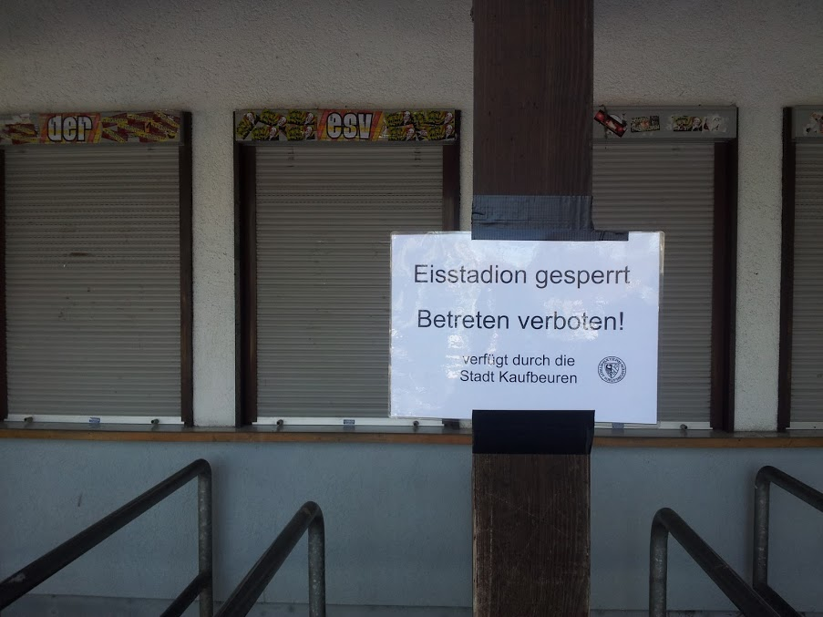 Sparkassenarena Kaufbeuren, Germany